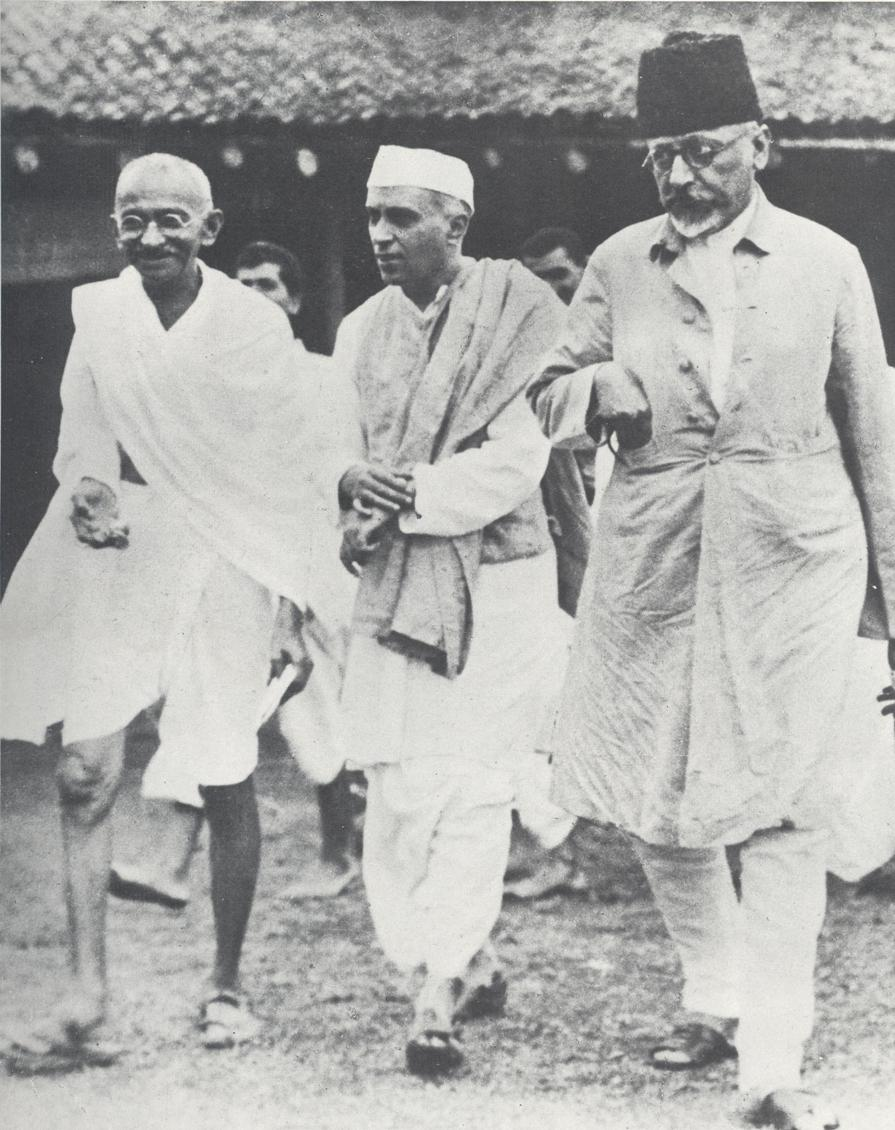 Jawaharlal Nehru with Mahatma Gandhi and Abul Kalam Azad, Wardha, August 1935